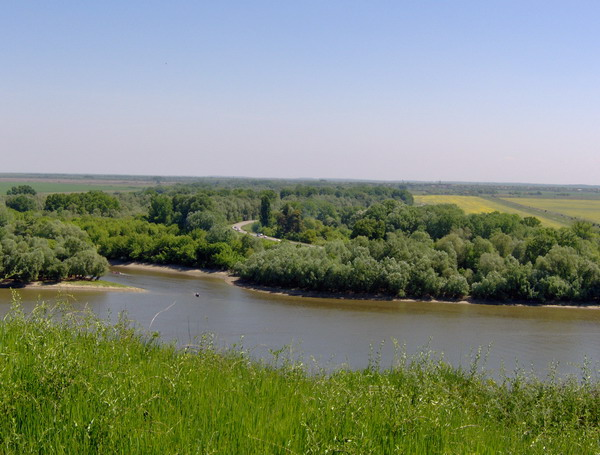 Mouth of the Begej river into the Tisa (Tisza), across Titel.